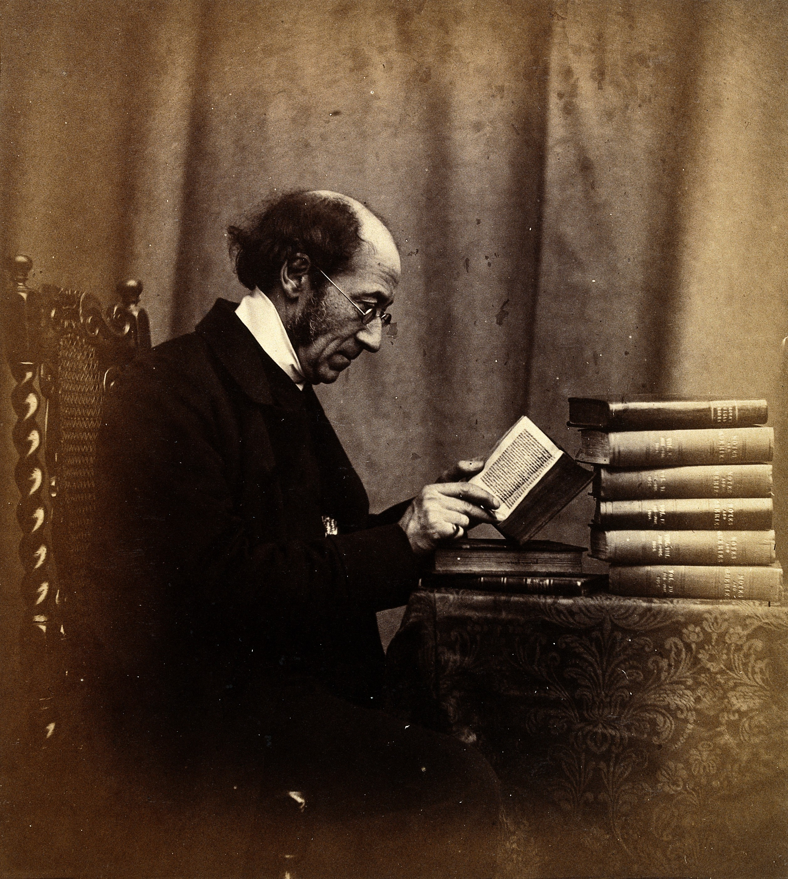 William John Thoms. Photograph. Iconographic Collections Keywords: portrait photographs